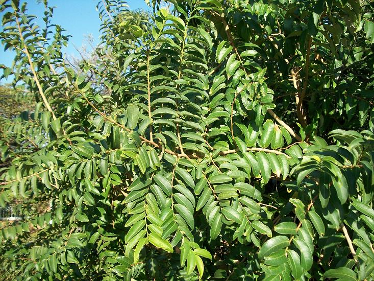 Sclerocroton integerrimus foliage at Amanzimtoti